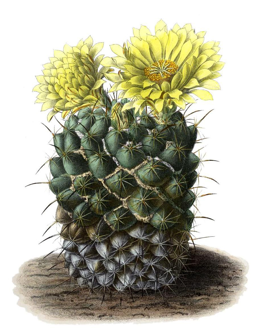 Coryphantha cornifera'